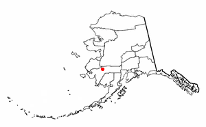 Adapted from Wikipedia's AK borough maps by Seth Ilys.